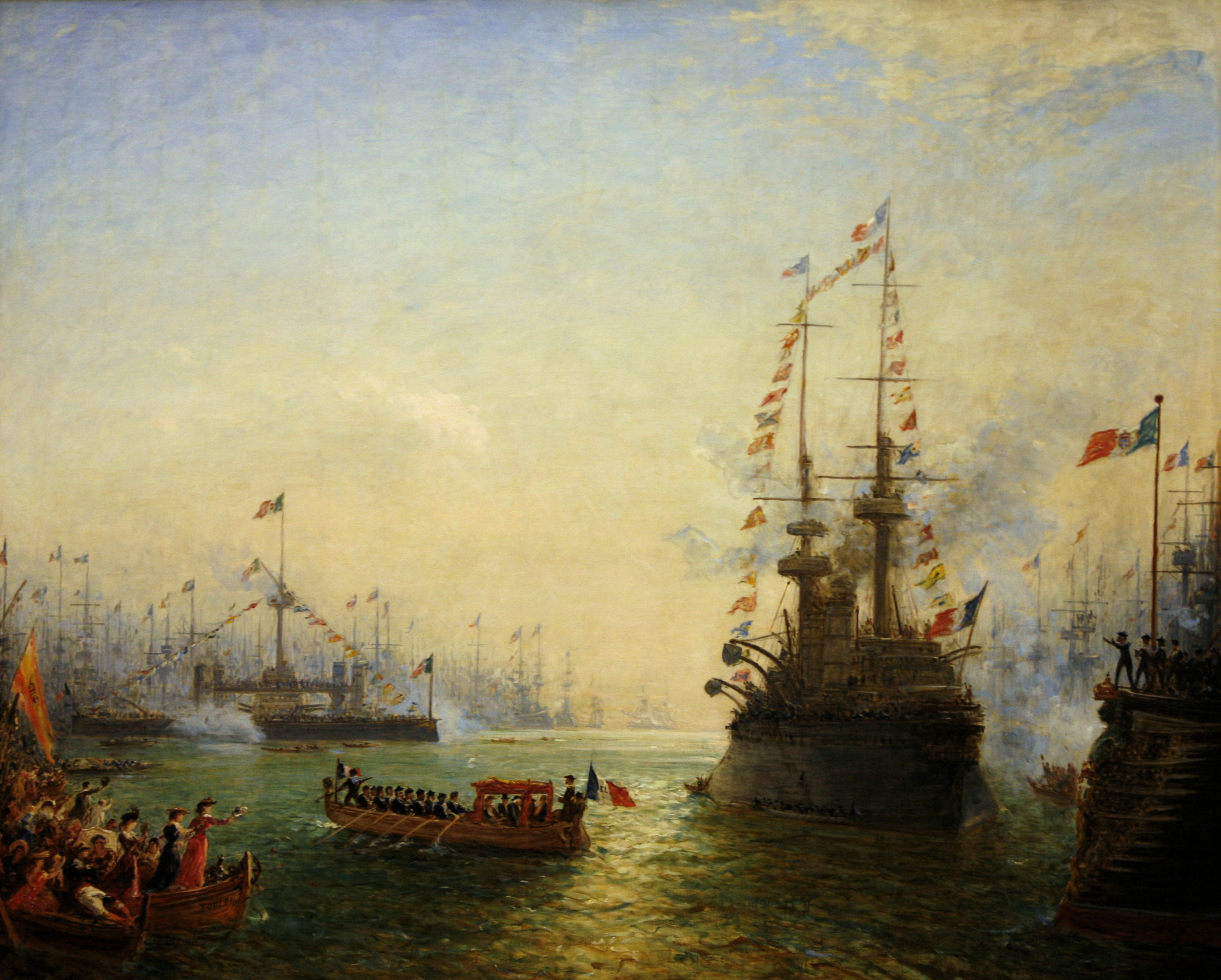 Félix Ziem: Q47911869 Artist Félix ZiemObject type paintingDescription Toulon, visit of the French president Émile Loubet to the French and Italian squadrons on April 1901Medium oil on canvasCollection Musée national de la Marine Native nameMusée national de la MarineLocationParisCoordinates48° 51′ 43.11″ N, 2° 17′ 16.76″ E Established1827Web page control : Q1286709 VIAF: 19144648200974718522 ISNI: 0000 0001 2259 2914 LCCN: n50055356 Museofile: M5026 WorldCat institution QS:P195,Q1286709Accession number 11 OA 139References described at URL: Med Toulon, visit of the French president Émile Loubet to the French and Italian squadrons on April 1901